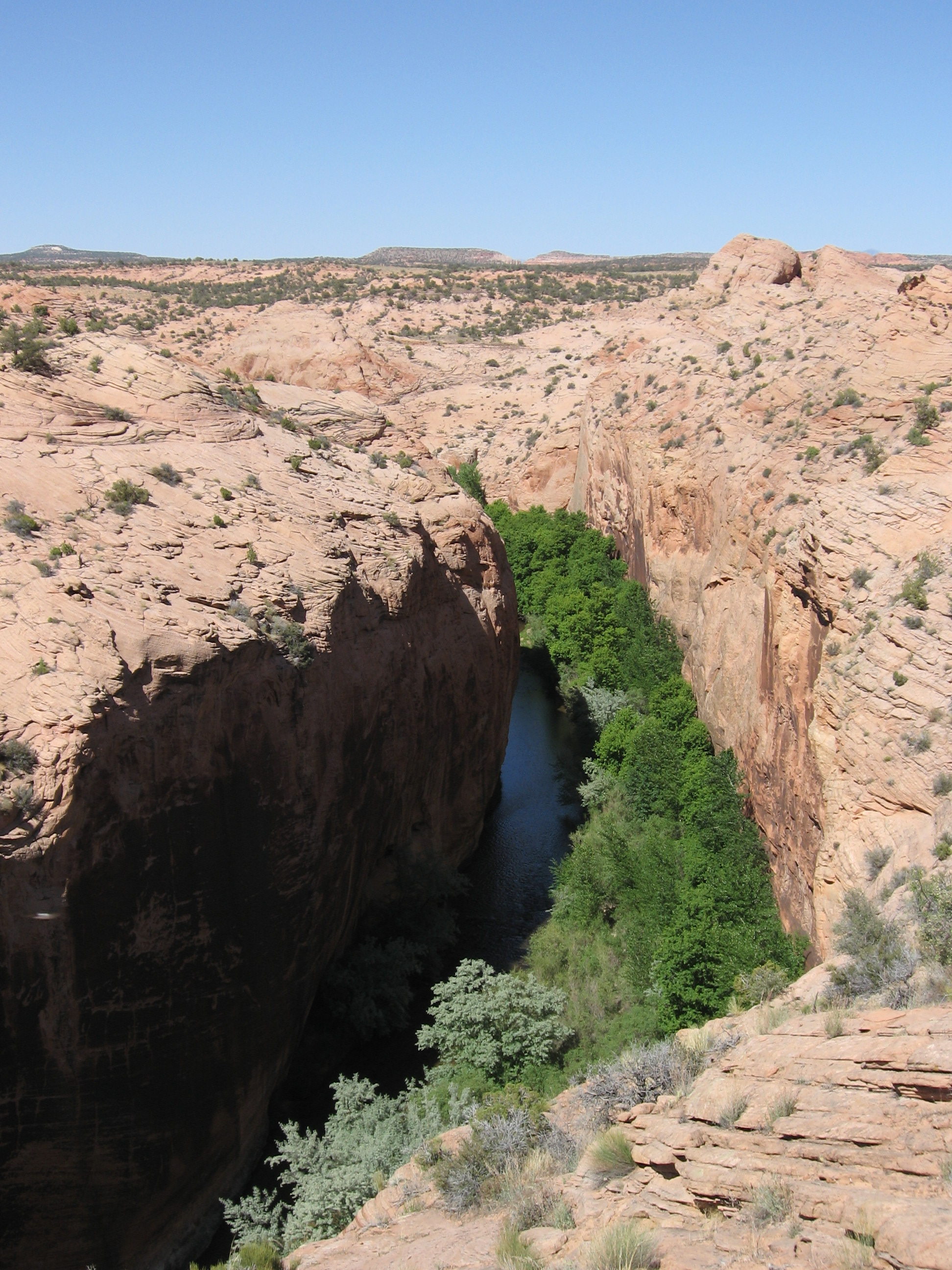 Inner gorge of the Escalanter River approximately two miles downstream of its confluence with Boulder Creek